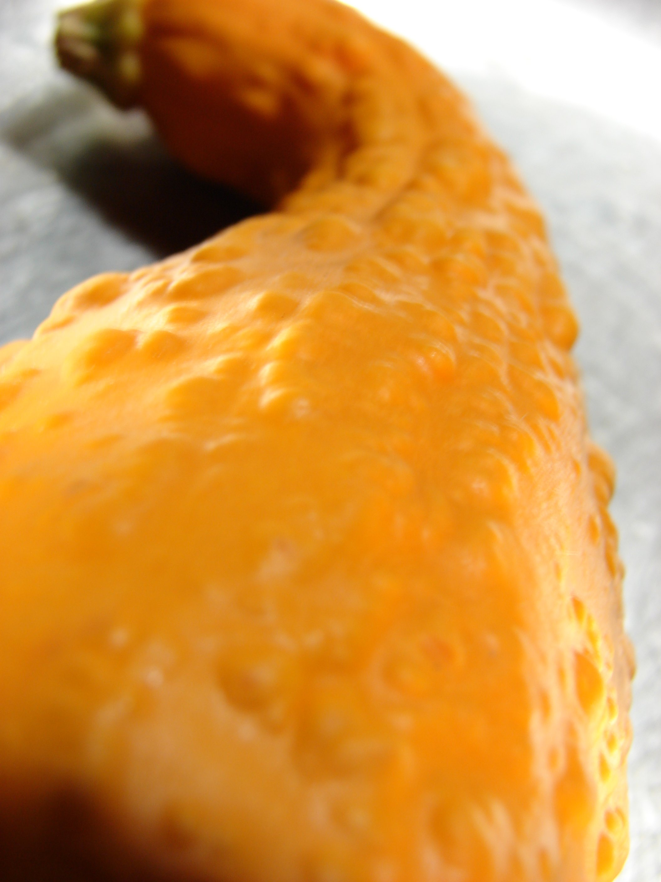 Photo taken by me in September, 2006.